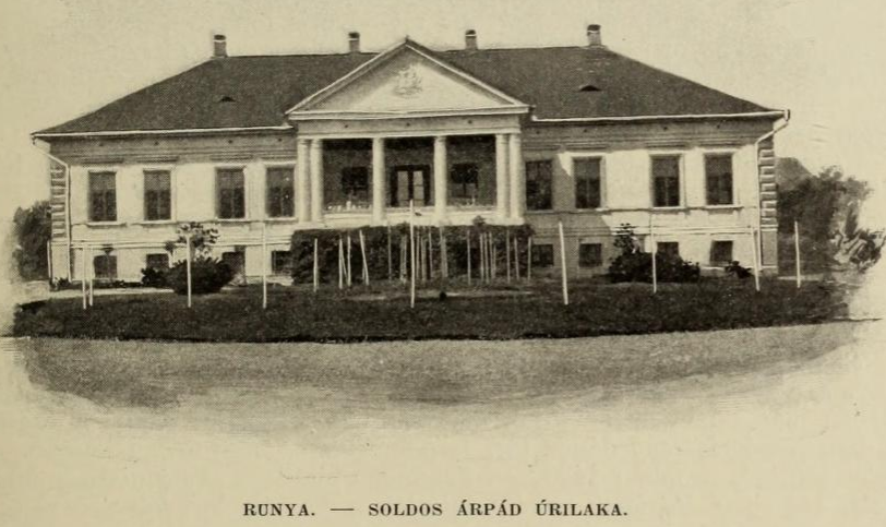 Mansion in Runya